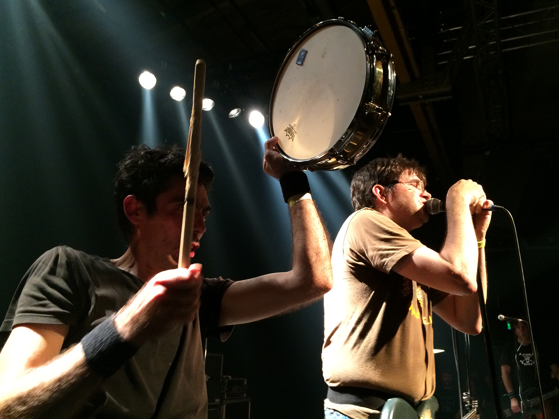 Shellac, playing "End of Radio" live in Hamburg at Kampnagel on November 1st 2014.